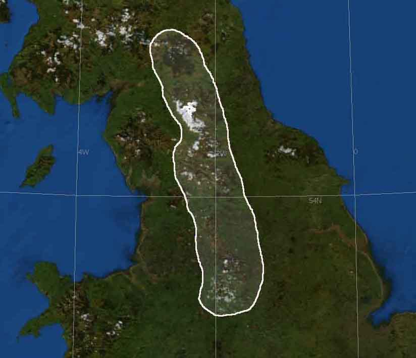 Base image from NASA World Wind Edited by User:Harkey Lodger to show Pennines region of UK December 02 2007